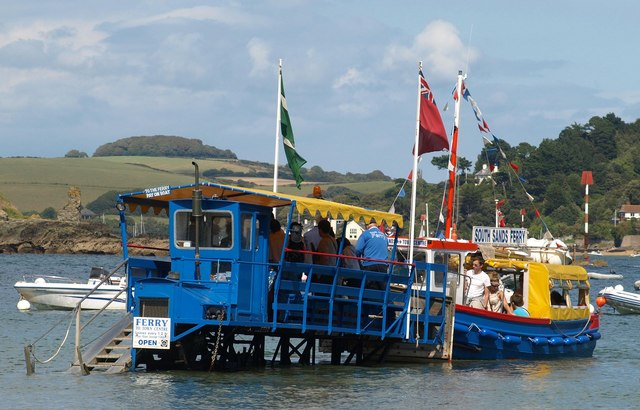 See title.